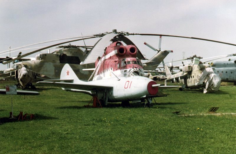 MiG-9 at Monino Air Force Museum, 1998.